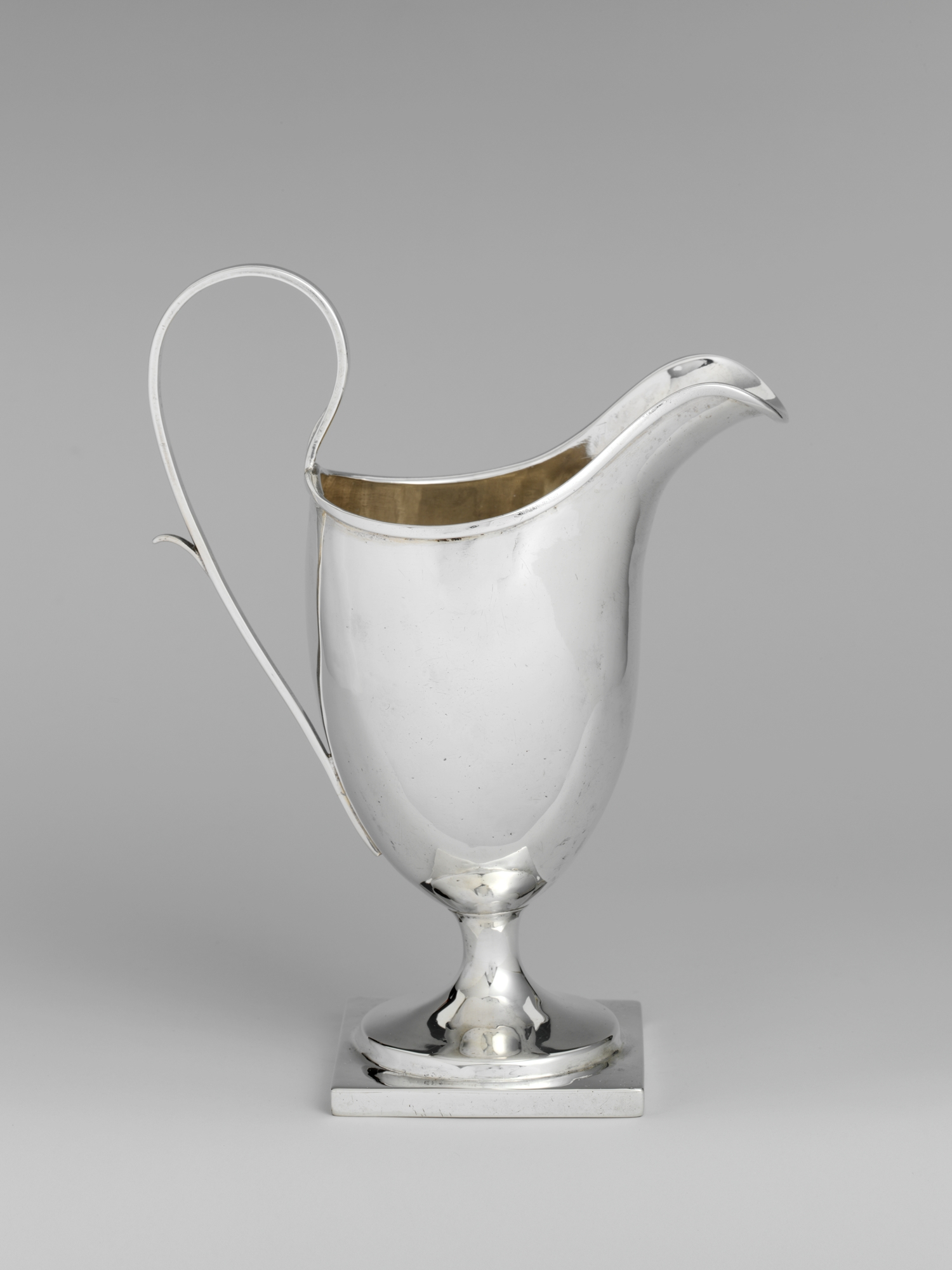 American; Cream pot; Silver